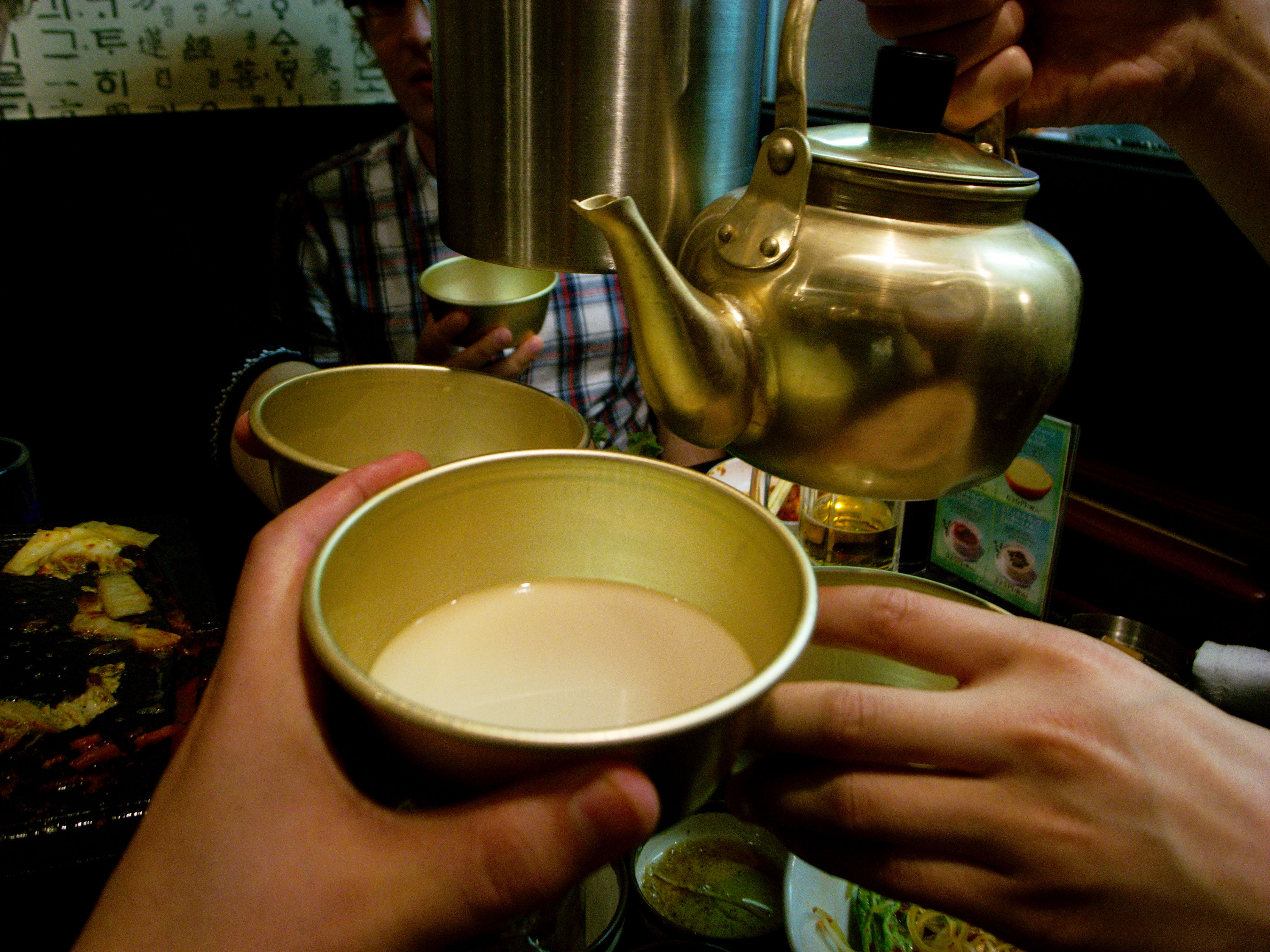 Makgeolli, Korean rice wine, from a brass kettle to brass cups.